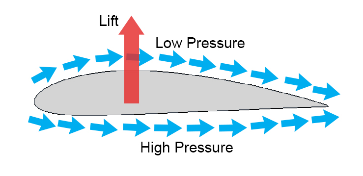 Naca-4415-airfoil